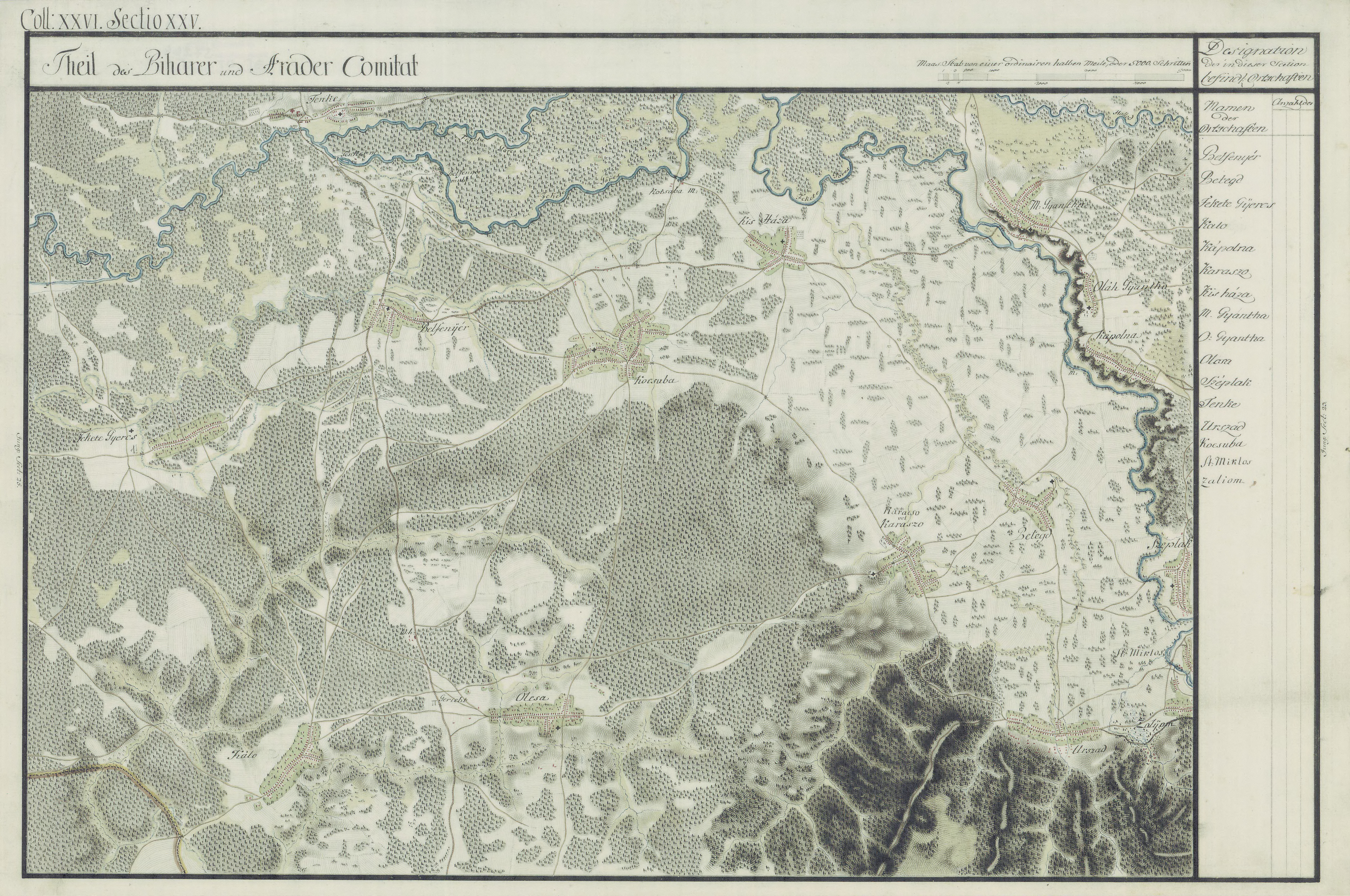 Arad County, 1782-85. Josephinische Landesaufnahme pg.26-25